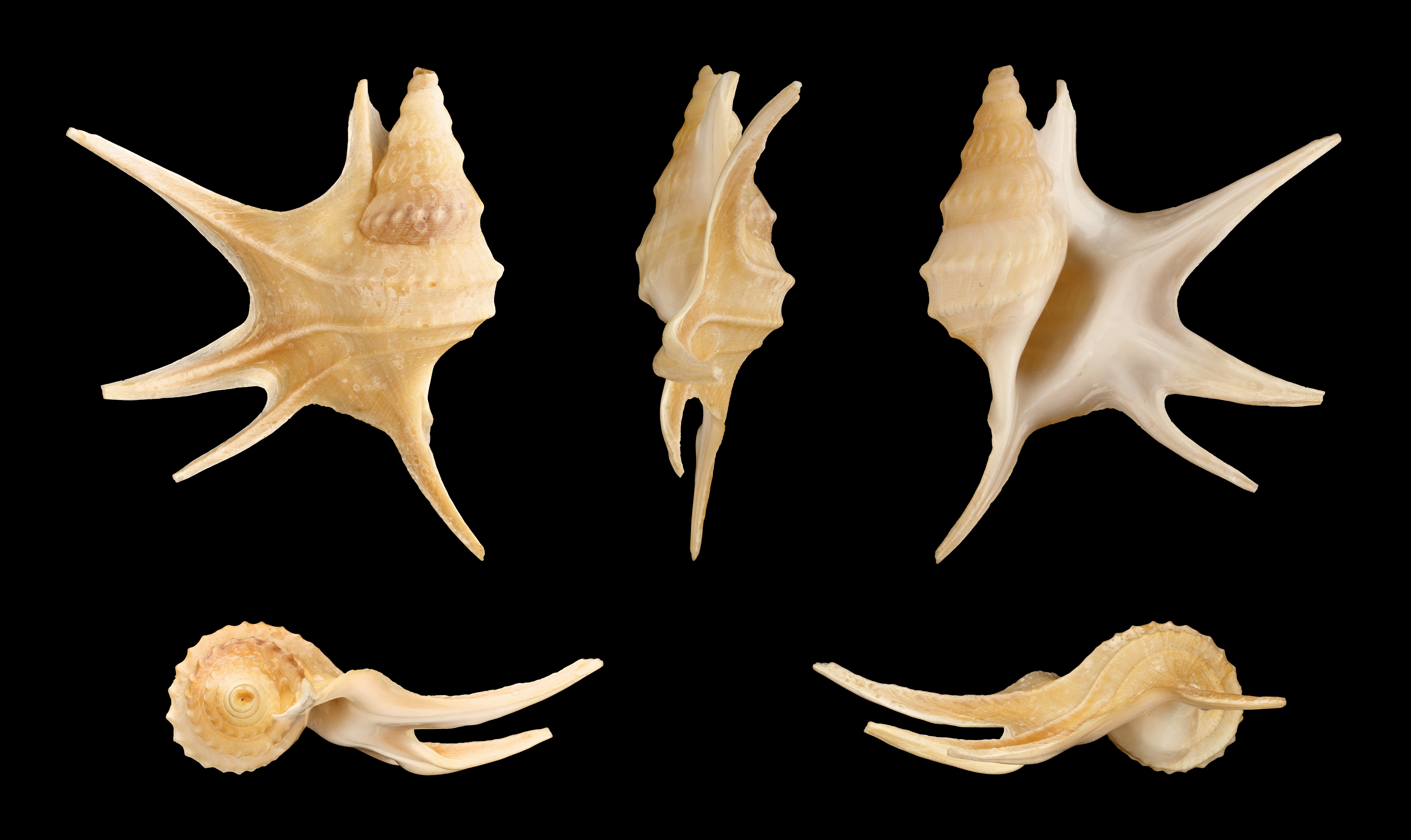 Mediterranean Pelican's Foot; Length 4.1 cm; Originating from the Mediterranean near Malaga, Spain; Shell of own collection, therefore not geocoded. Dorsal, lateral (right side), ventral, back, and front view.